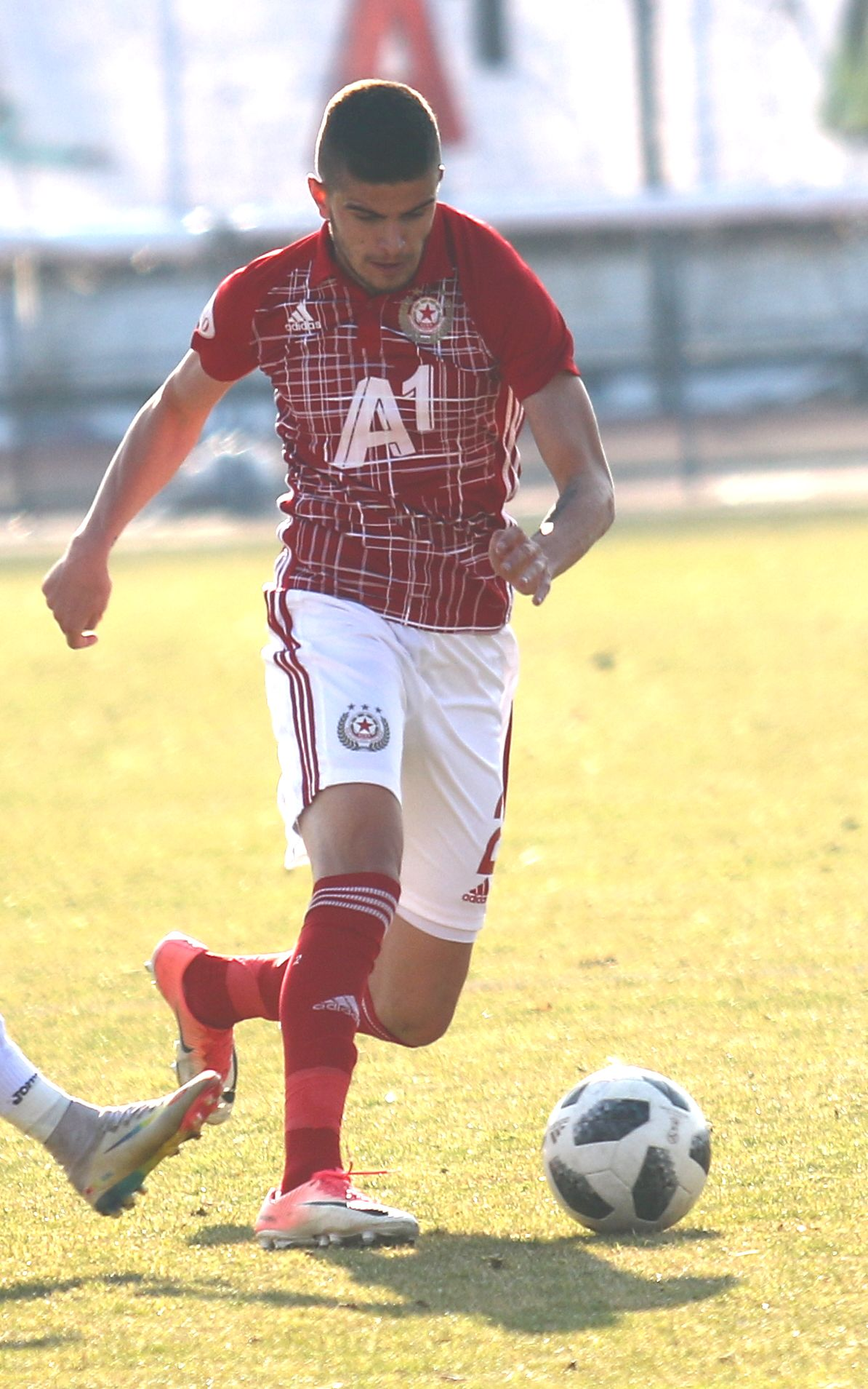 Stoycho Atanasov (Bulgarian: Стойчо Атанасов; born 14 May 1997) is a Bulgarian footballer who plays as a defender for CSKA Sofia